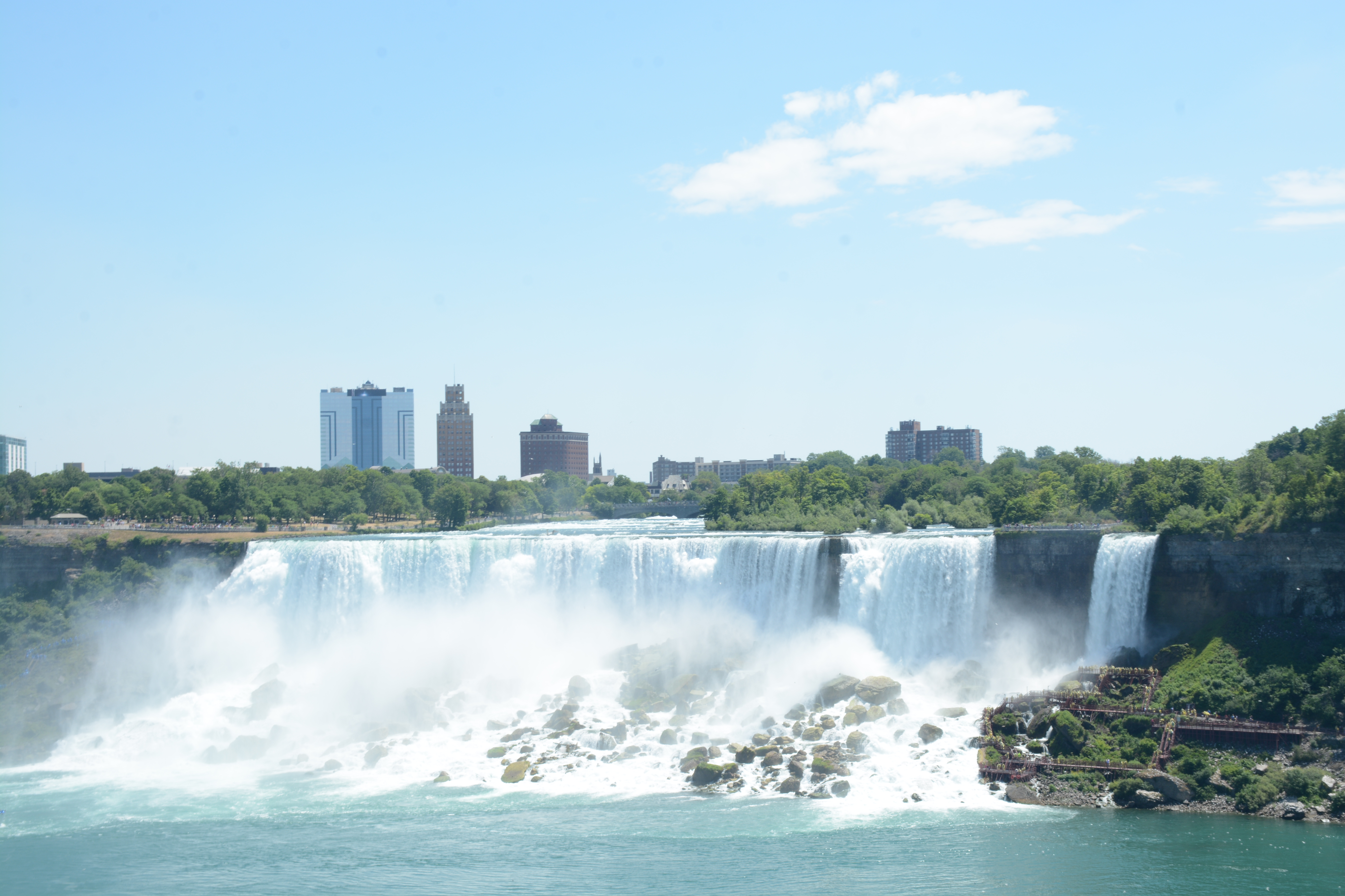 The american Niagara Falls